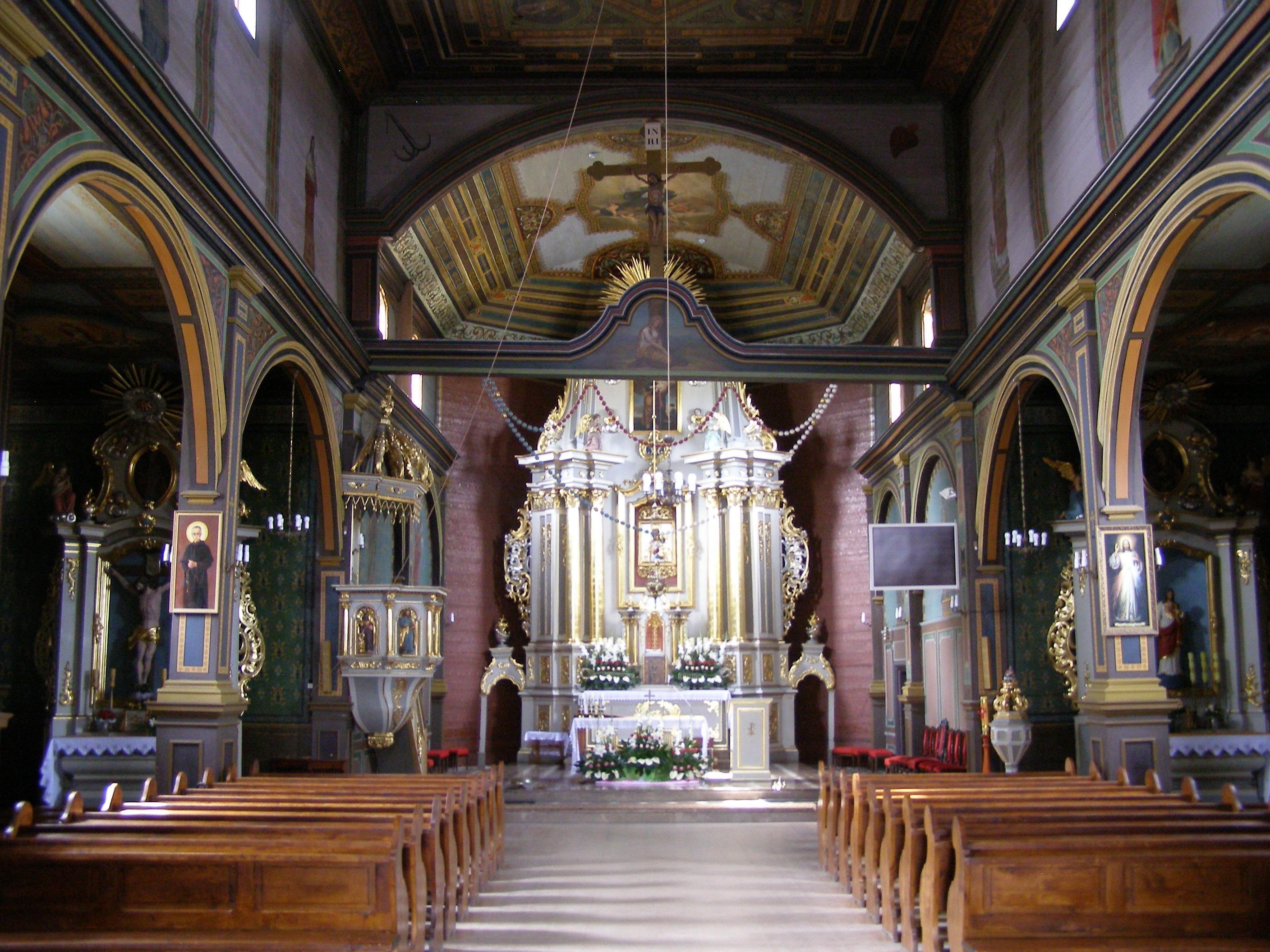 Dąbrowa Tarnowska - All Saints' church